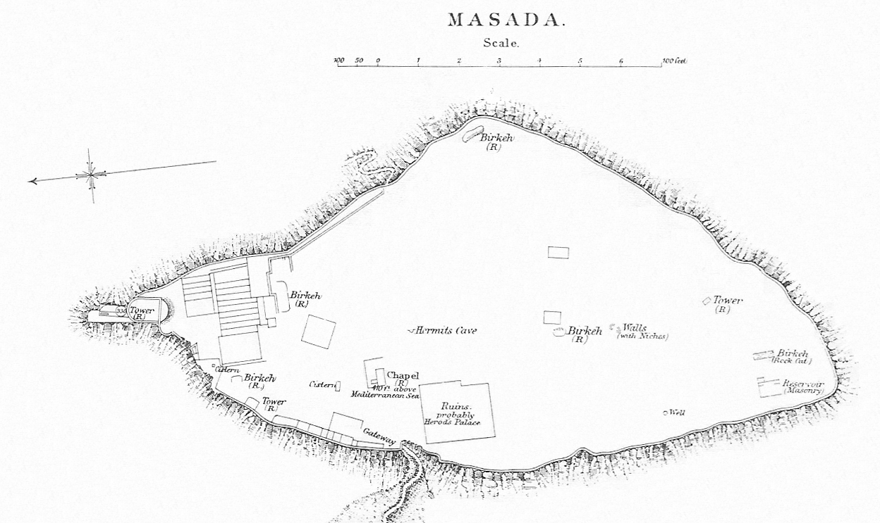 General map of Masada, inside the fortress.